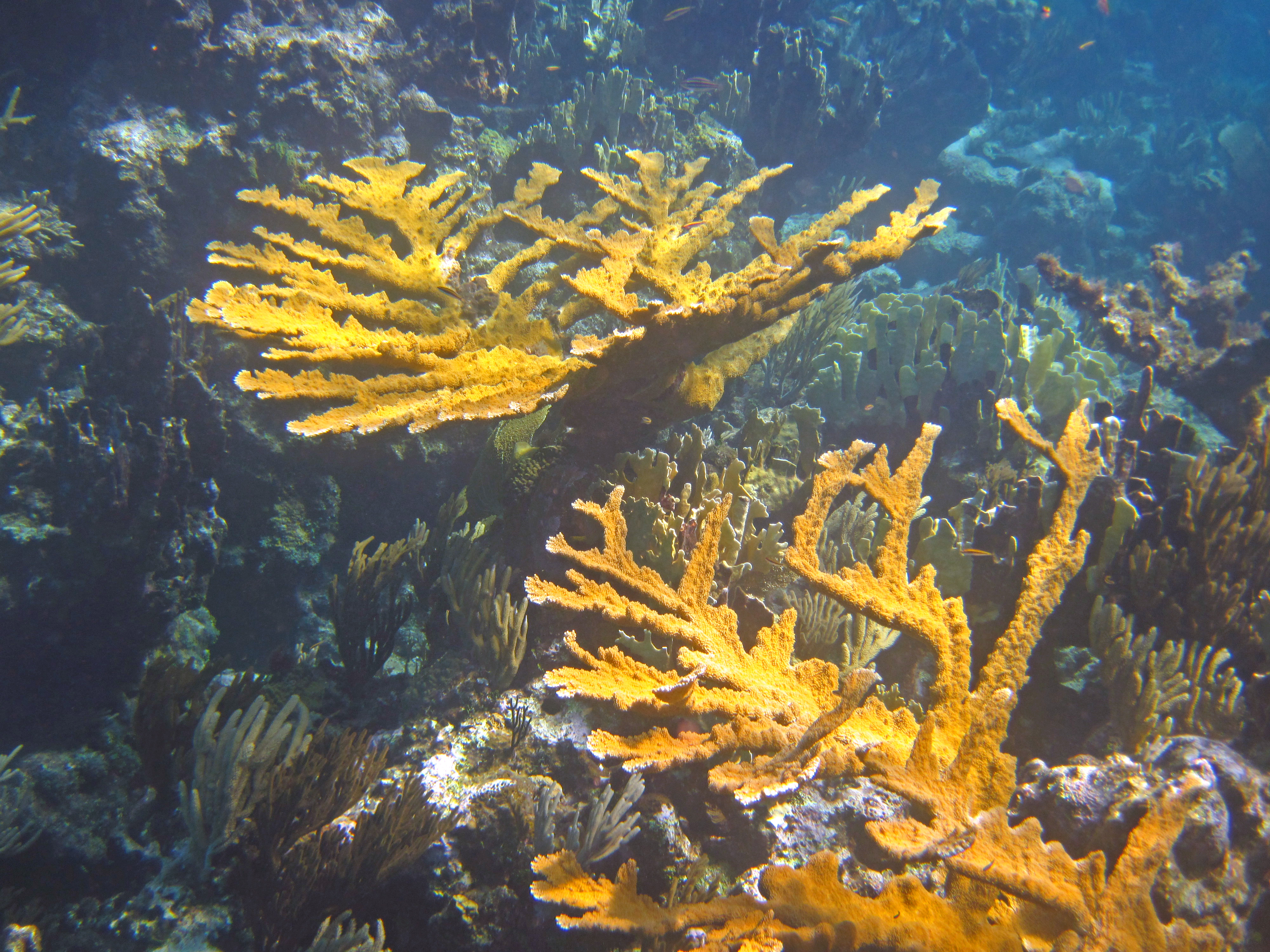 Acropora palmata (Lamarck, 1816) - elkhorn coral on a reef. Stony corals have a patchy distribution in the shallow marine waters surrounding San Salvador Island. They occur as isolated individual colonies, in patch reefs, fringing reefs, and barrier reefs. Stony corals are scleractinian anthozoan cnidarians (there are also non-scleractinian stony corals in the fossil record, such as tabulates and rugosans). They consist of individuals or colonies of gelatinous polyps that secrete hard skeletons of aragonite (CaCO3). Most scleractinian corals live in warm, tropical to subtropical, photic zone environments (the shallow portions of the world’s oceans where sunlight penetrates). Microbes (Symbiodinium - Protista, Dinoflagellata/Pyrrhophyta) called zooxanthellae live in their tissues and need to be in sunlight to make their own food (photosynthesis), which is shared with the host coral animal. Scleractinian corals have stinging cells (nematocysts) in their tentacles that paralyze prey. The brownish and grayish branching organisms below the elkhorn corals are octocorals. The upright bladed organisms are Millepora complanata - bladed fire corals. Classification: Animalia, Cnidaria, Anthozoa, Scleractinia, Acroporidae Locality: Gaulin Reef, northern Graham's Harbour, offshore northern San Salvador Island, eastern Bahamas